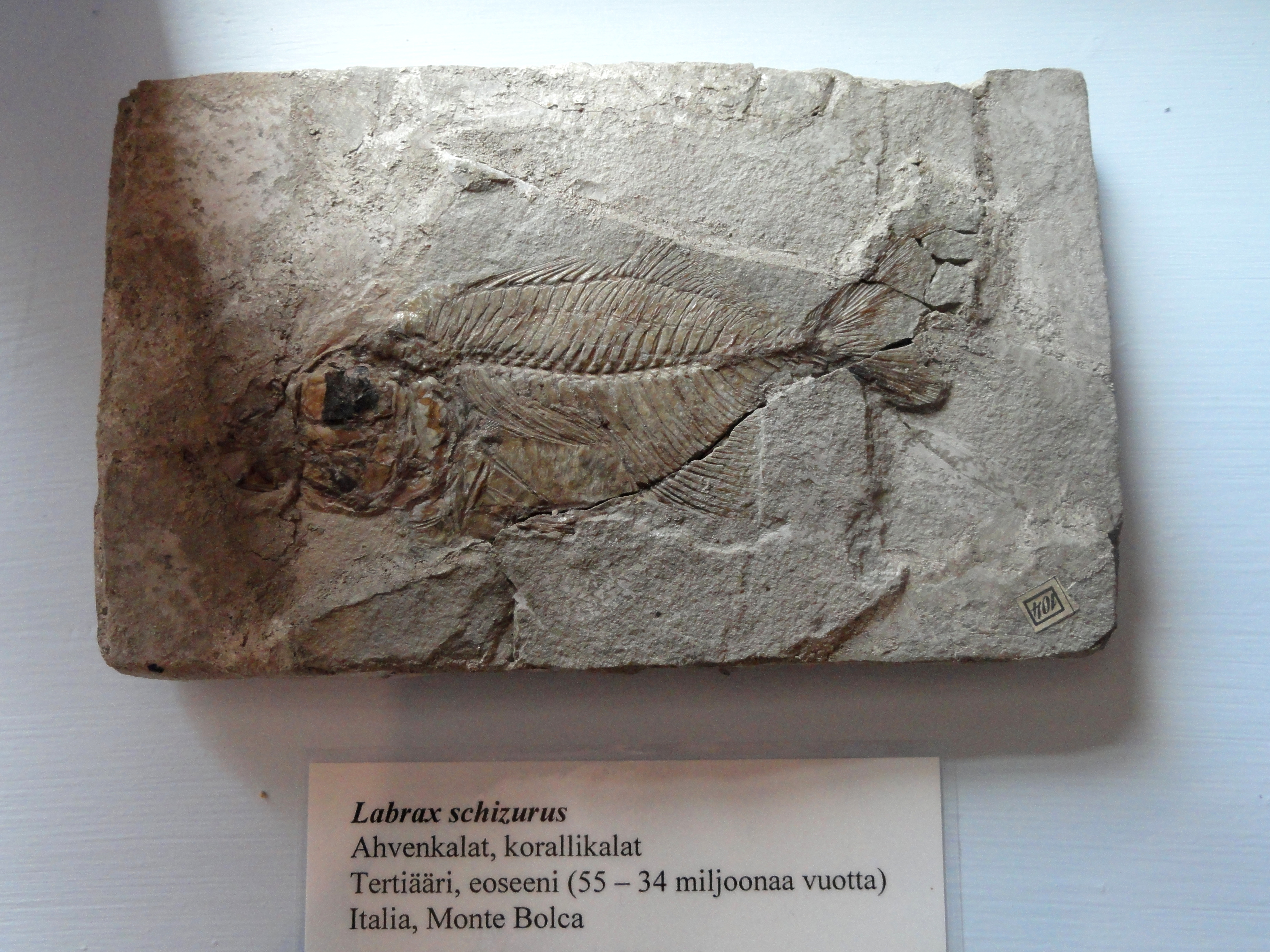 Exhibit in the Arppeanum, Helsinki, Finland.